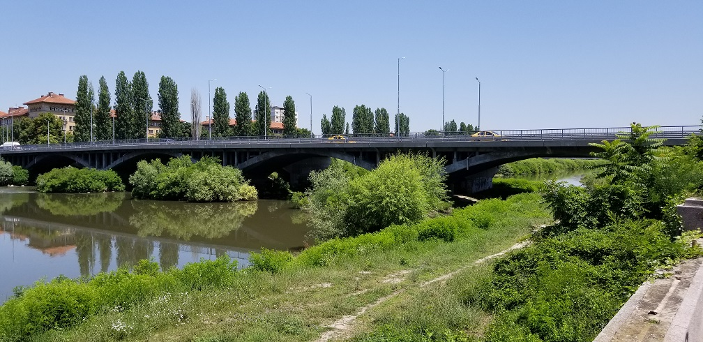 Bridge of Gerdjika in Plovdiv